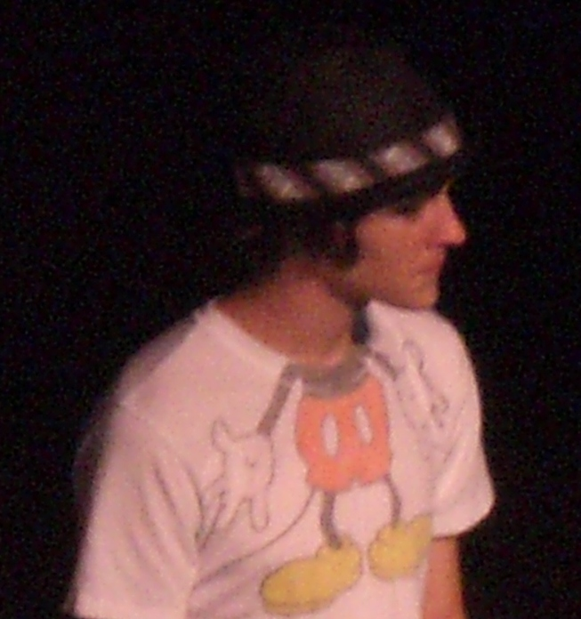 HSM 3 prep rally